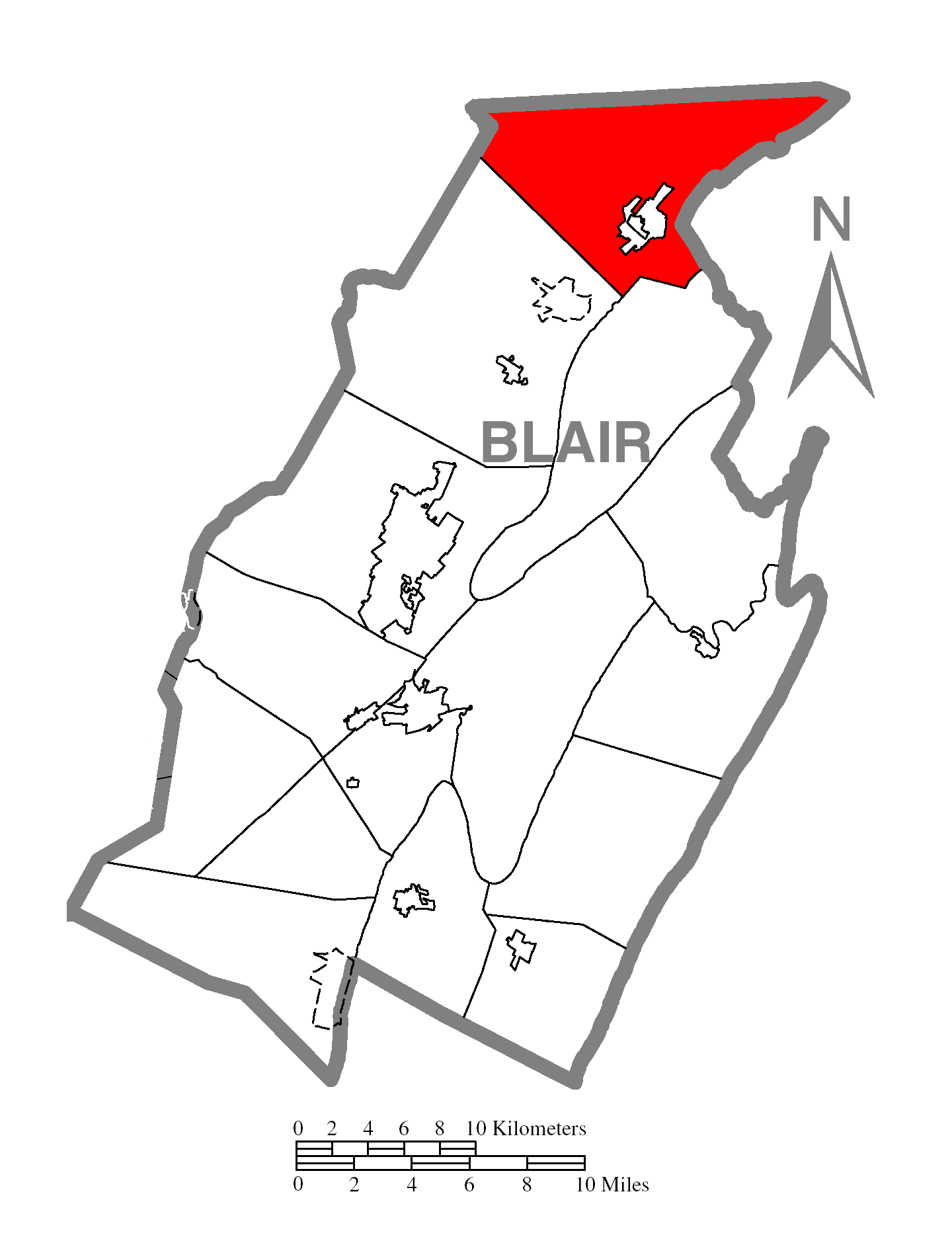 A map of Blair County showing Snyder Township, Pennsylvania (alternate) highlighted on the map.